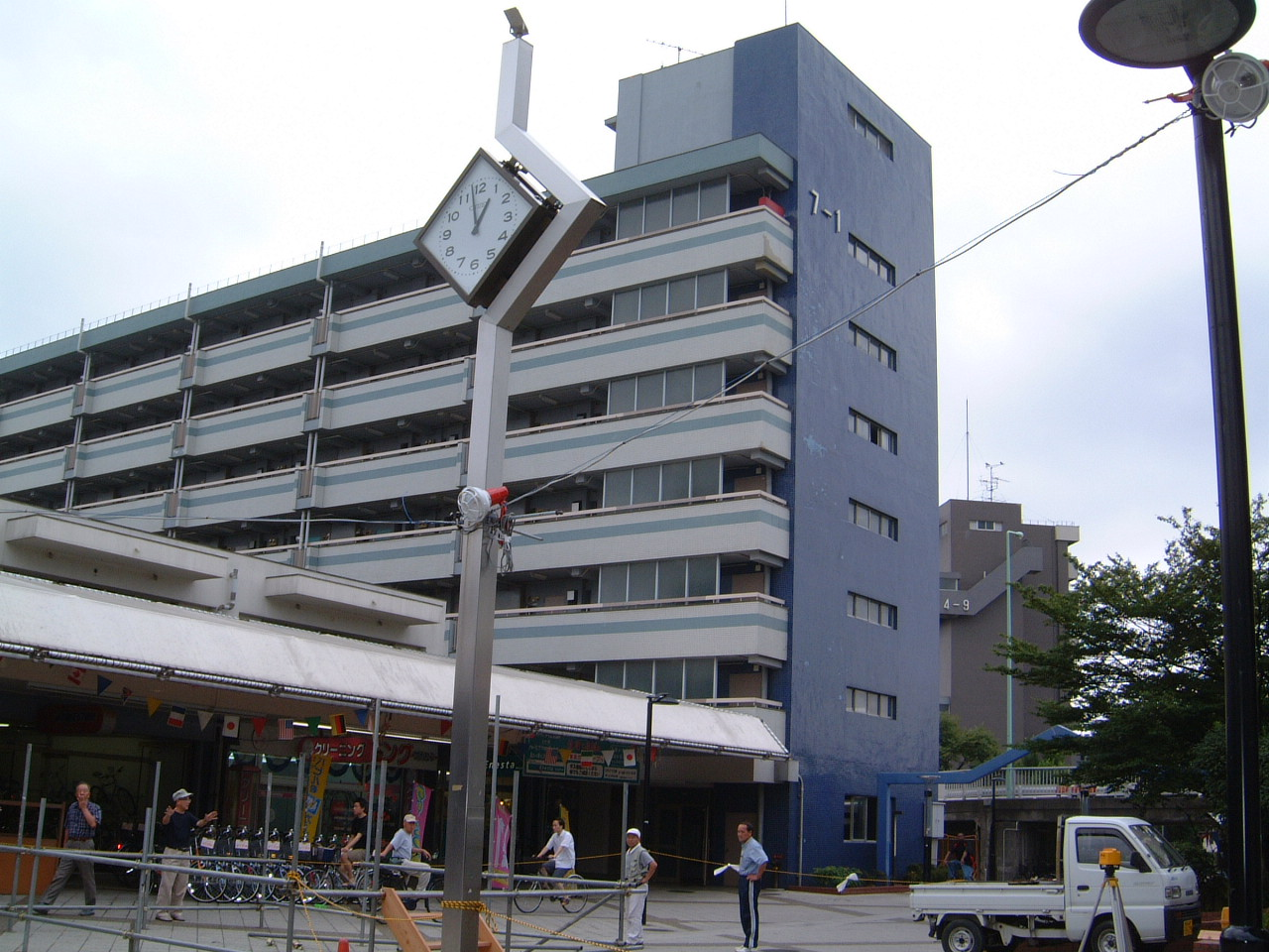 Misato Danchi (Misato Apartment House Complex) in Misato City, Saitama Prefecture, Japan